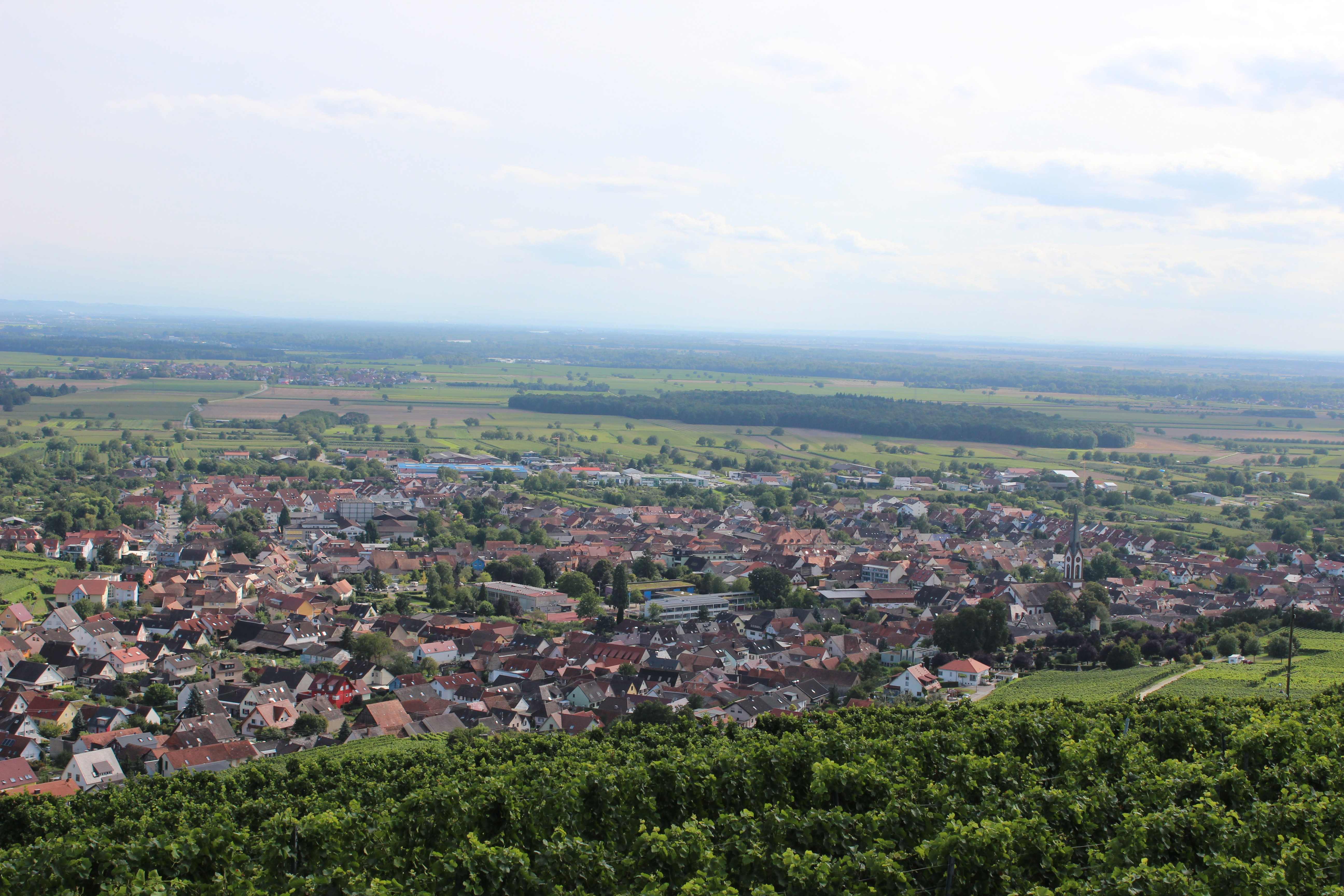 Panorama of Ihringen (in Baden-Wuerttemberg, Germany), viewed from the Kaiserstuhl